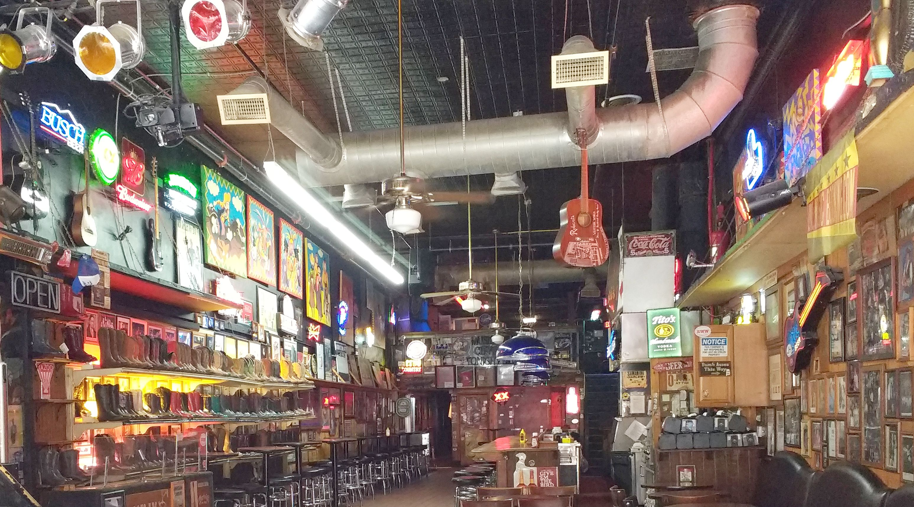 Interior of Robert's Western World when closed in Nashville, Tennessee.